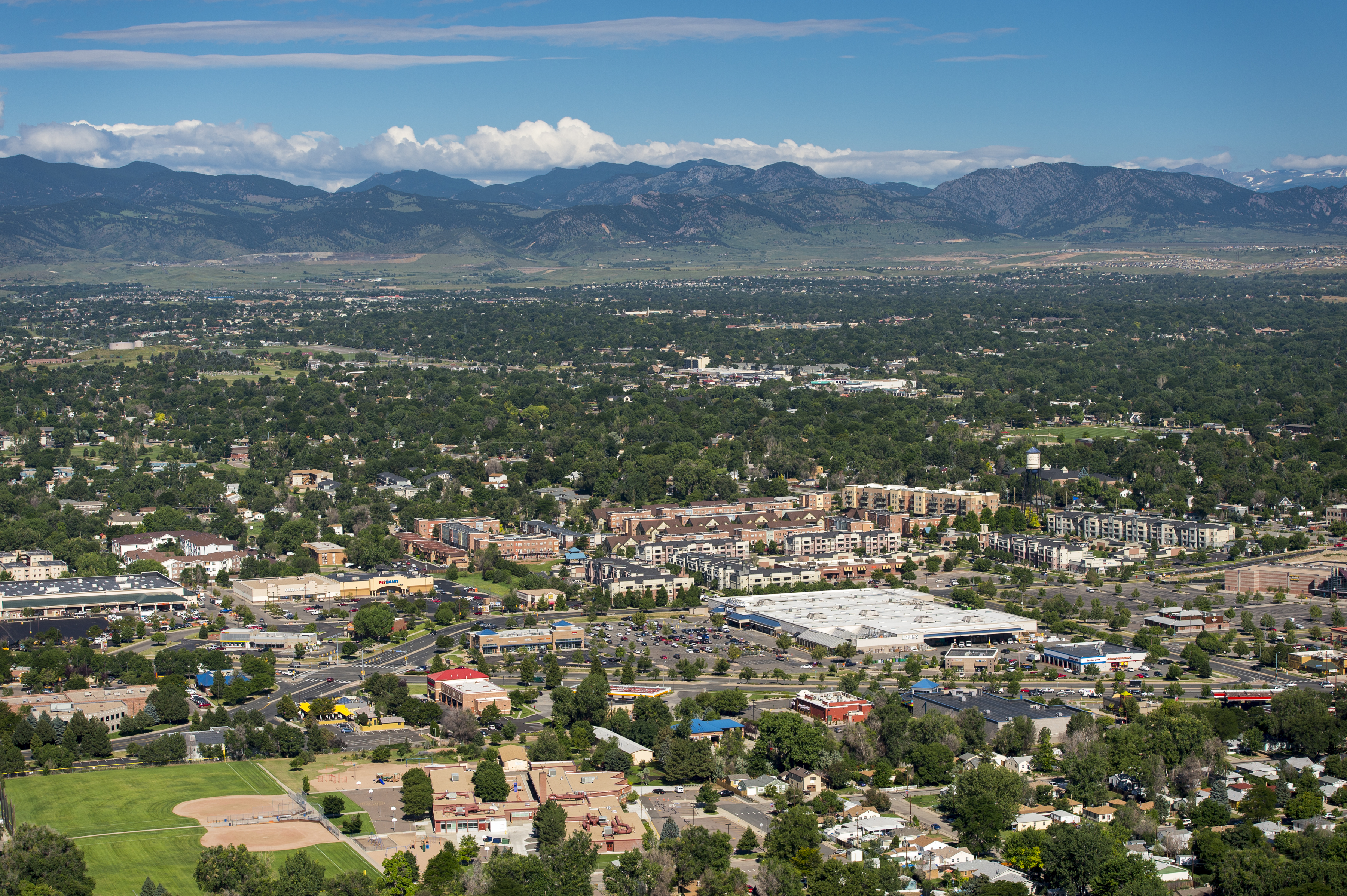 Aerial image of Arvada, Colorado